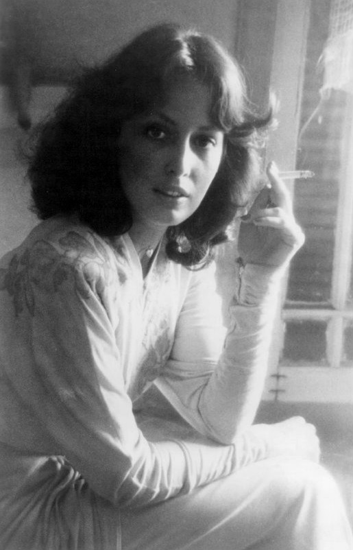 Photo of vocalist Ronee Blakely.